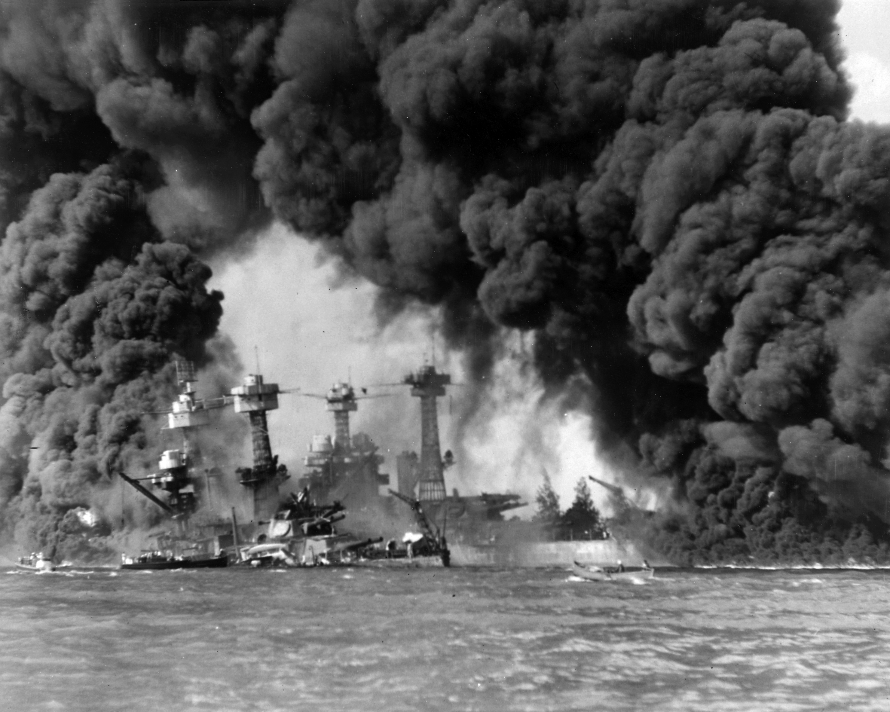 The U.S. Navy battleships USS West Virginia (BB-48) (sunken at left) and USS Tennessee (BB-43) shrouded in smoke following the Japanese air raid on Pearl Harbor.